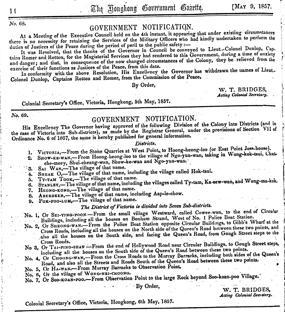 Tai Ping Shan defined by Hong Kong Government Gazette in 1857.